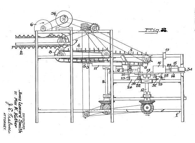 This is a drawing from the patent involved in Wilbur-Ellis Co. v. Kuther. No copyright subsists in US patents.